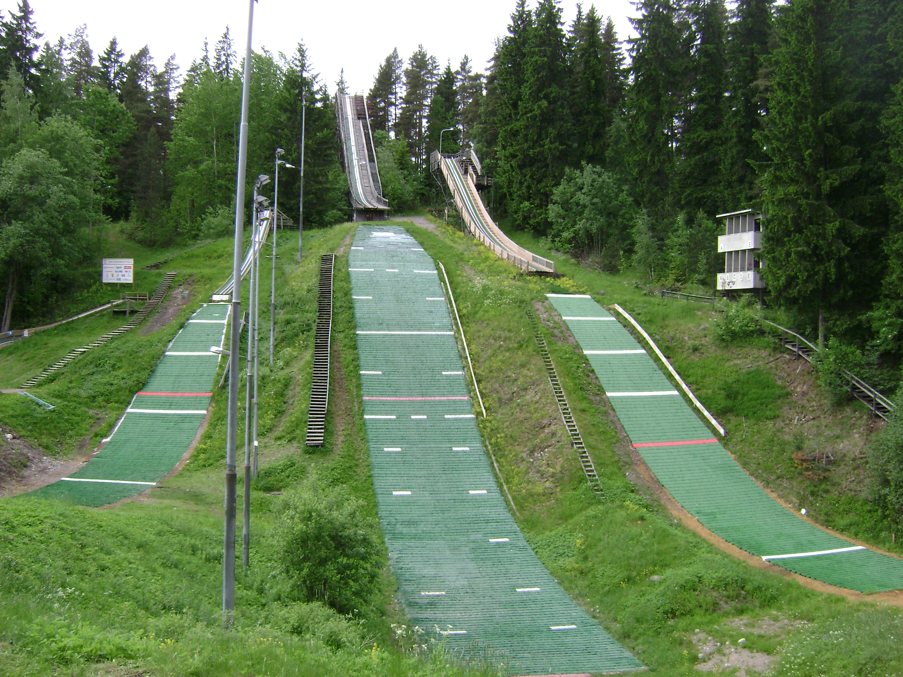 Smaller ski jumping hills of Salpausselkä skiing stadium in Lahti.